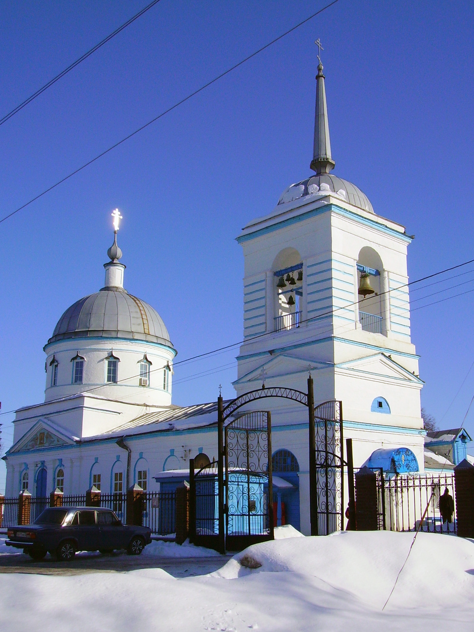 Kazanskaya Church in Vorsma